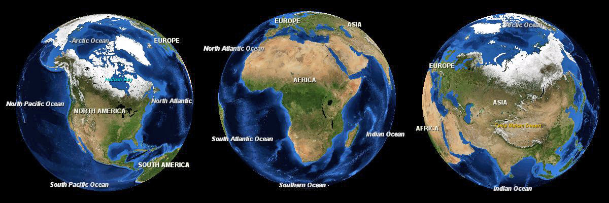 Three images of the Earth showing North America, Africa and Eurasia to scale.